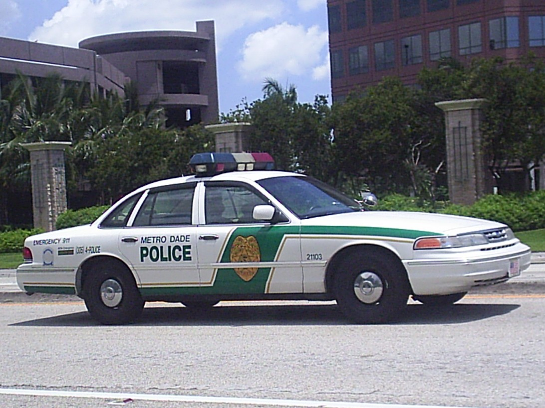 A Miami Dade Police Dept. (MDPD) Ford Crown Victoria